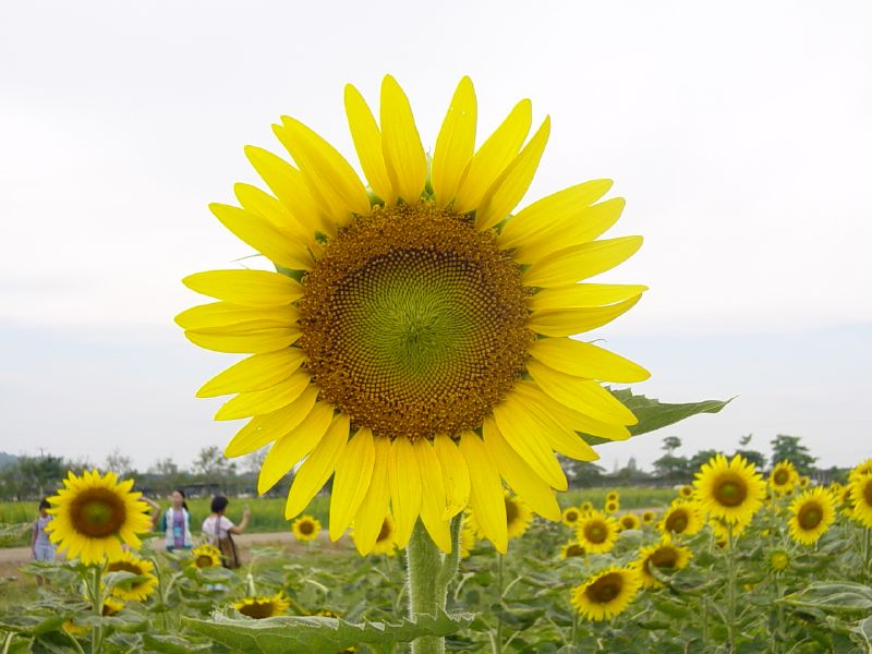 A sunflower in Thailand.